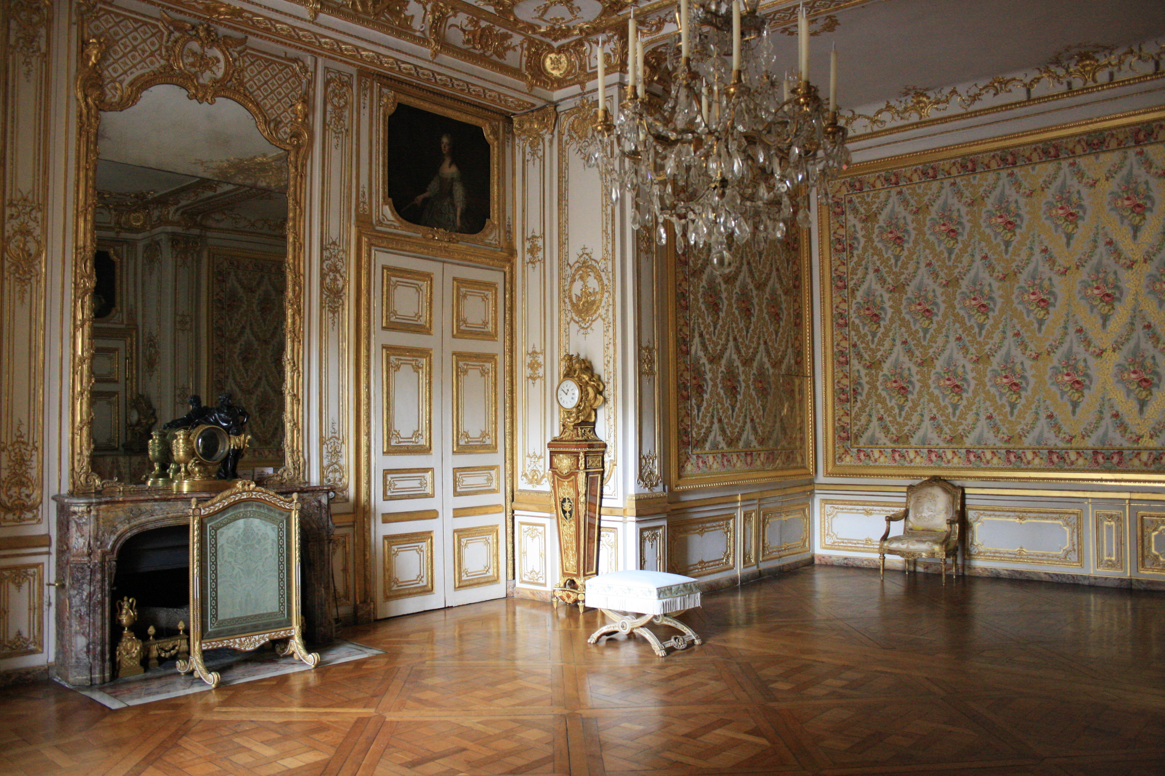 Petit appartement du roi (small apartment of the king) in the Palace of Versailles in Versailles, France